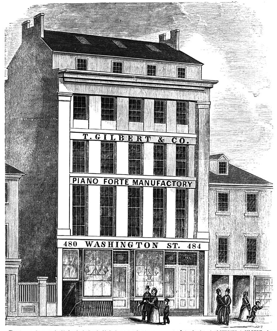 Engraving of T. Gilbert & Company's piano factory at 484 Washington street, formerly 400 Washington, Boston from full page advertisement